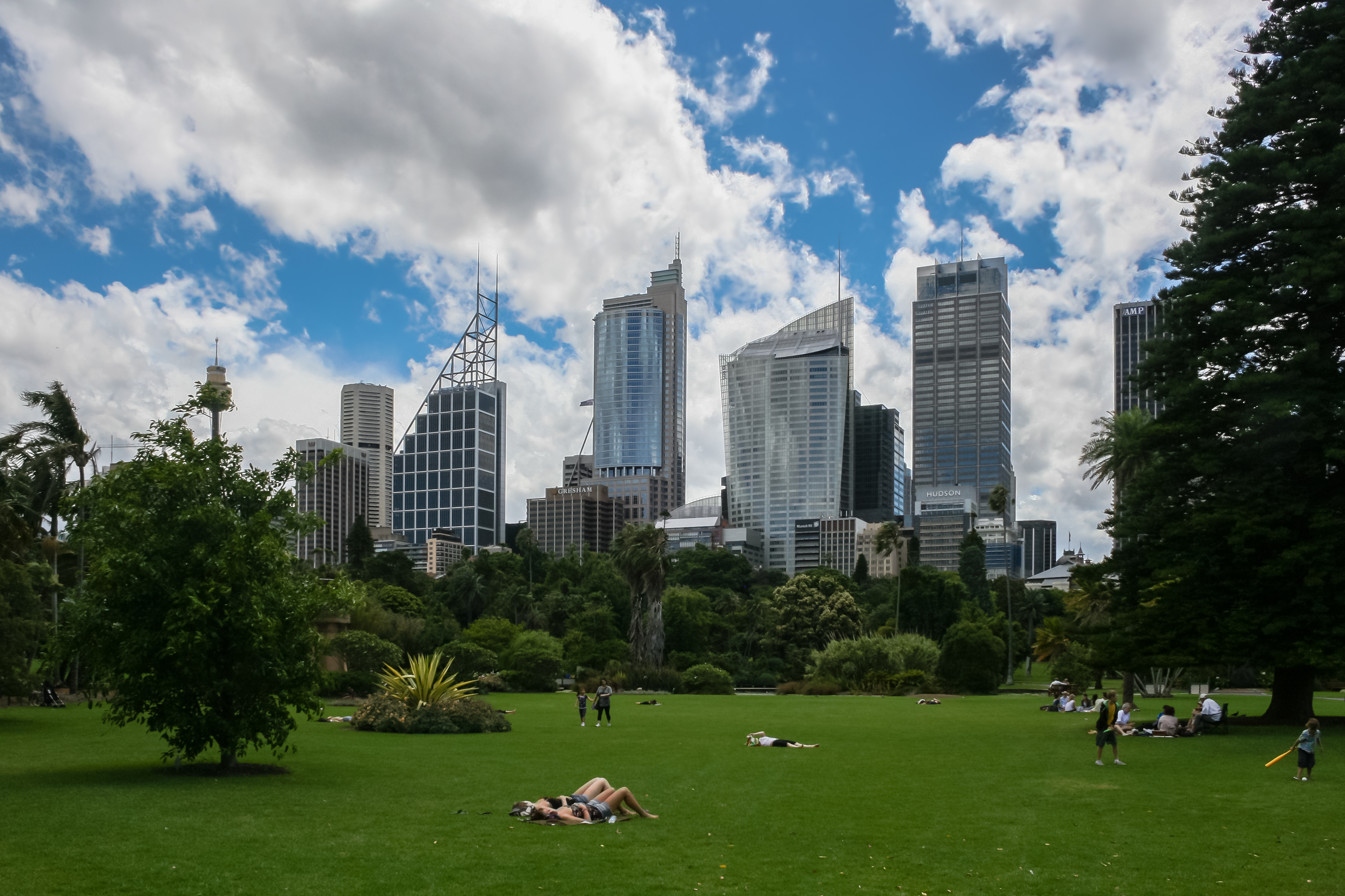 Royal Botanic Gardens, Sydney, Australia